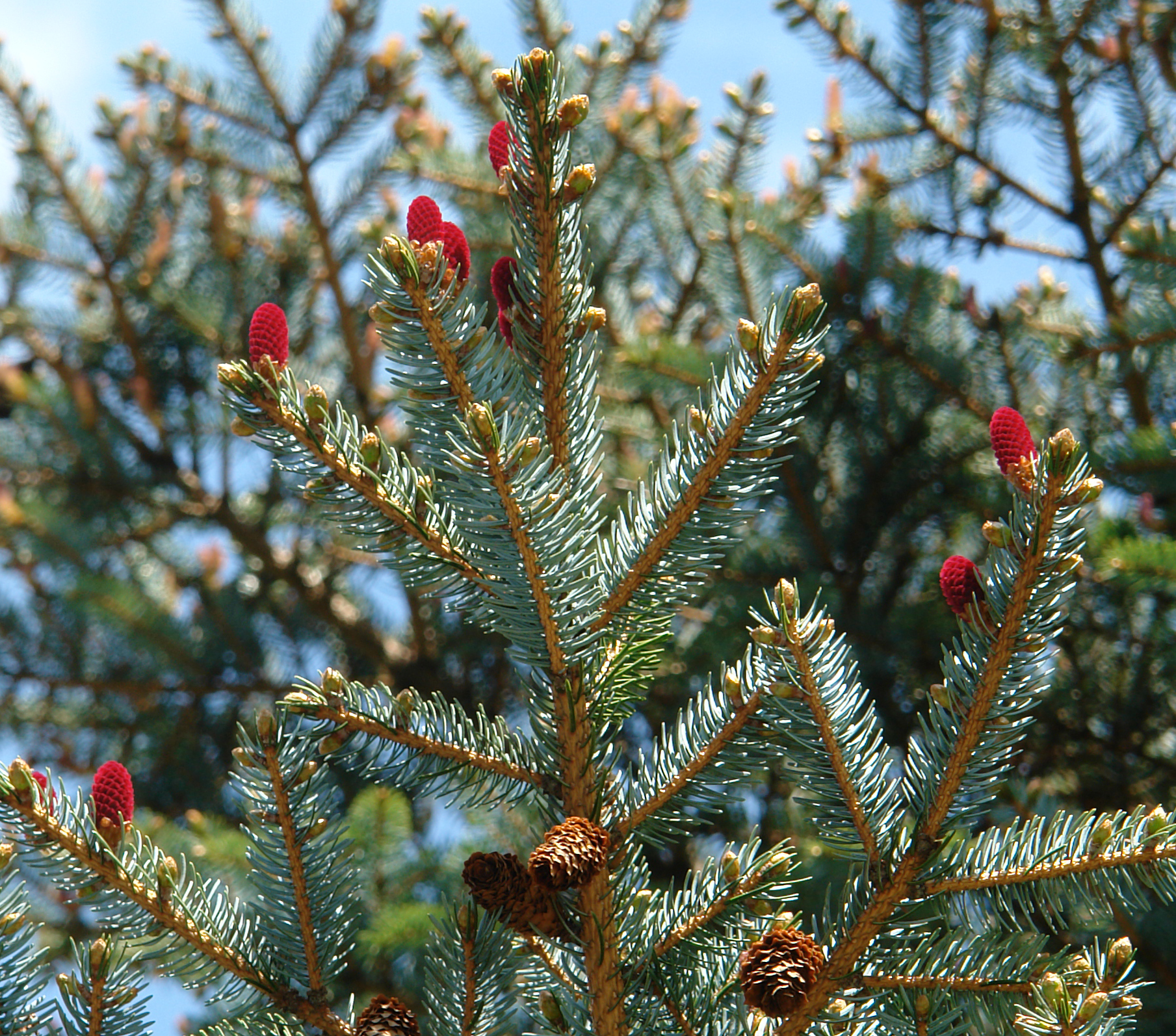 Picea jezoensis subsp. hondoensis, with immature (red) and mature (brown) cones. Cultivated, Fair Haven, New Jersey, USA.